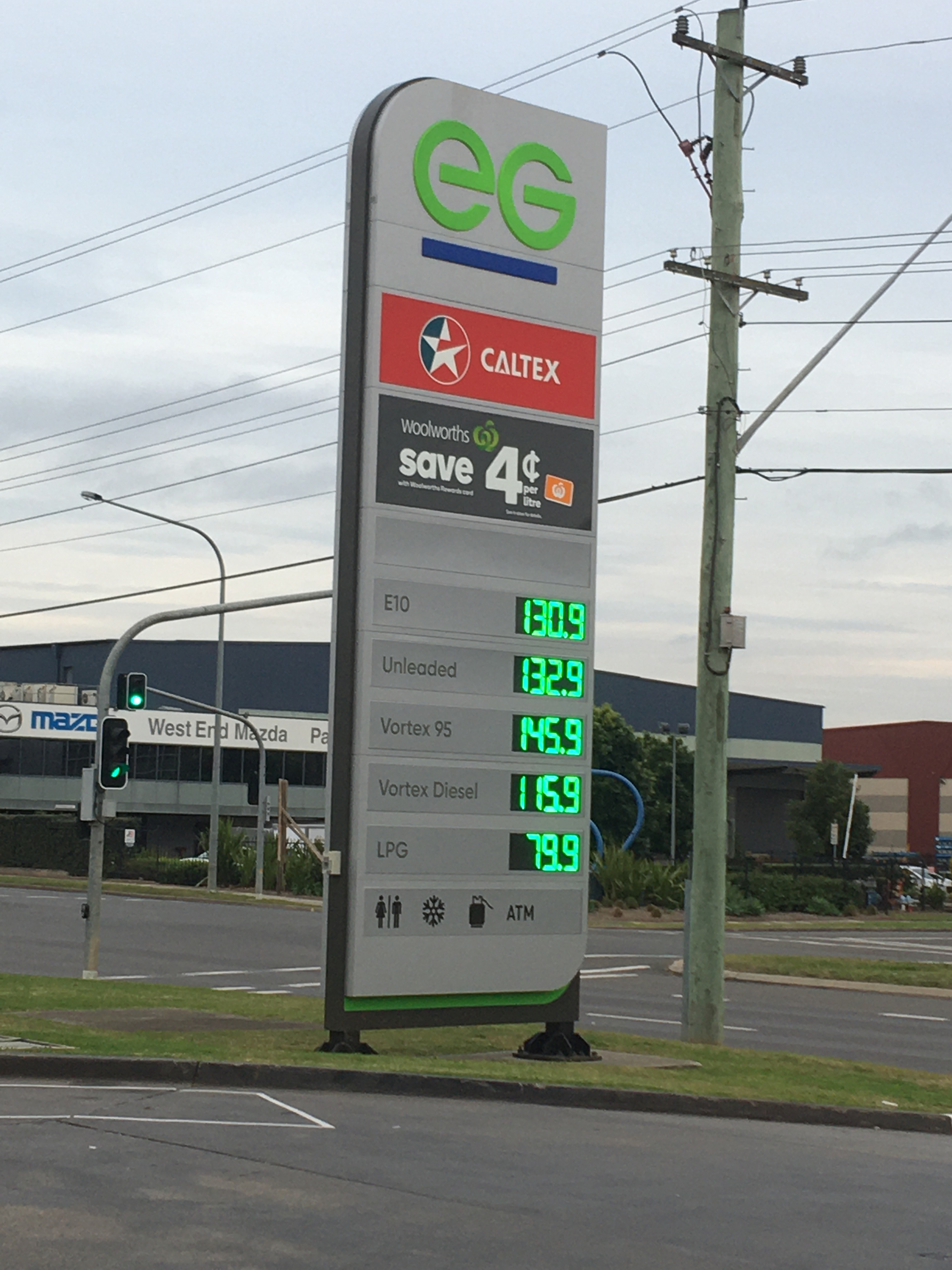 Signage at EG/Caltex Marayong, previously a Caltex/Woolworths